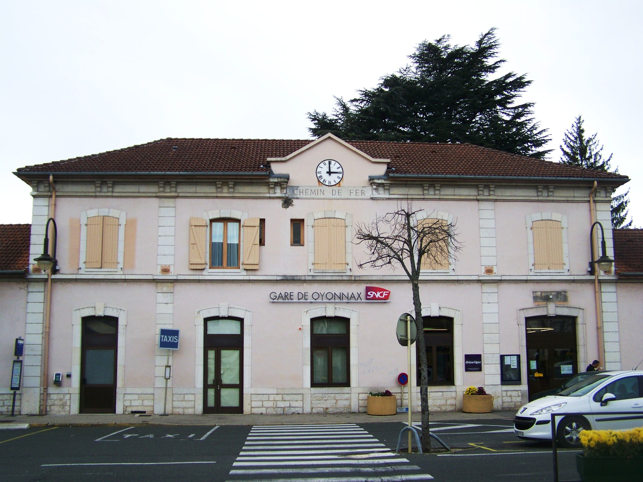 Building of French railway station of Oyonnax in the North of Ain.